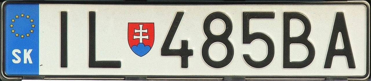 Slovak newest vehicle licence plate after entry to the EU with slovak coat of arms as seen in 2007 - IL stands for Ilava